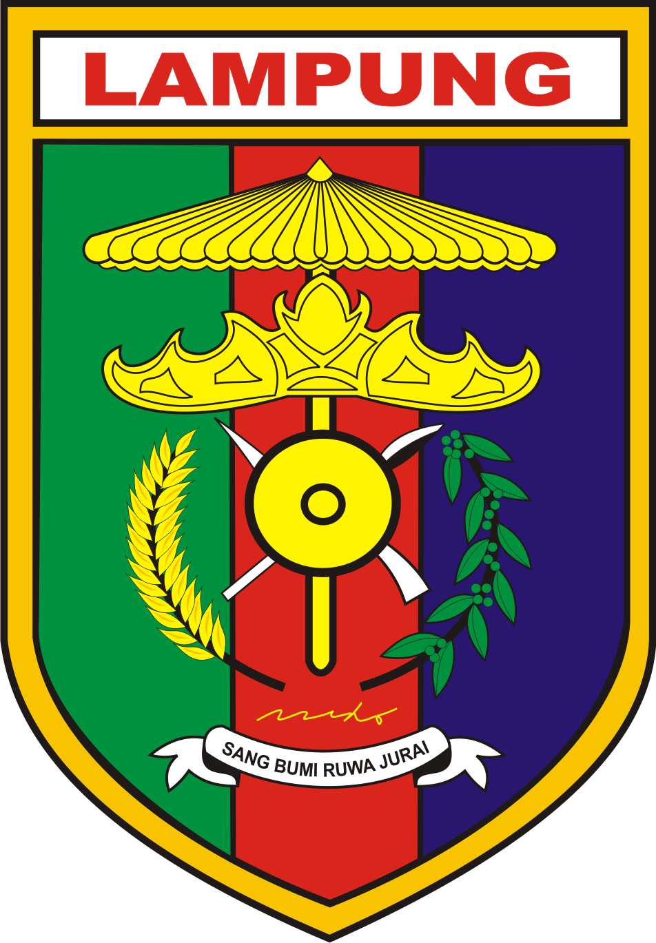 Coat of Arms of Indonesian province of South Sumatra.